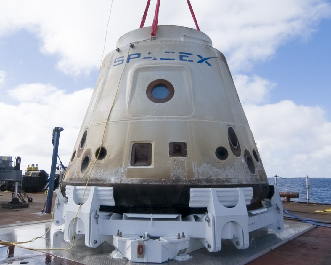 On December 8, 2010, the Dragon spacecraft landed safely in the Pacific Ocean, making it the first commercial spacecraft to successfully return from orbit. Dragon rests on a barge as it makes the trip back to shore.